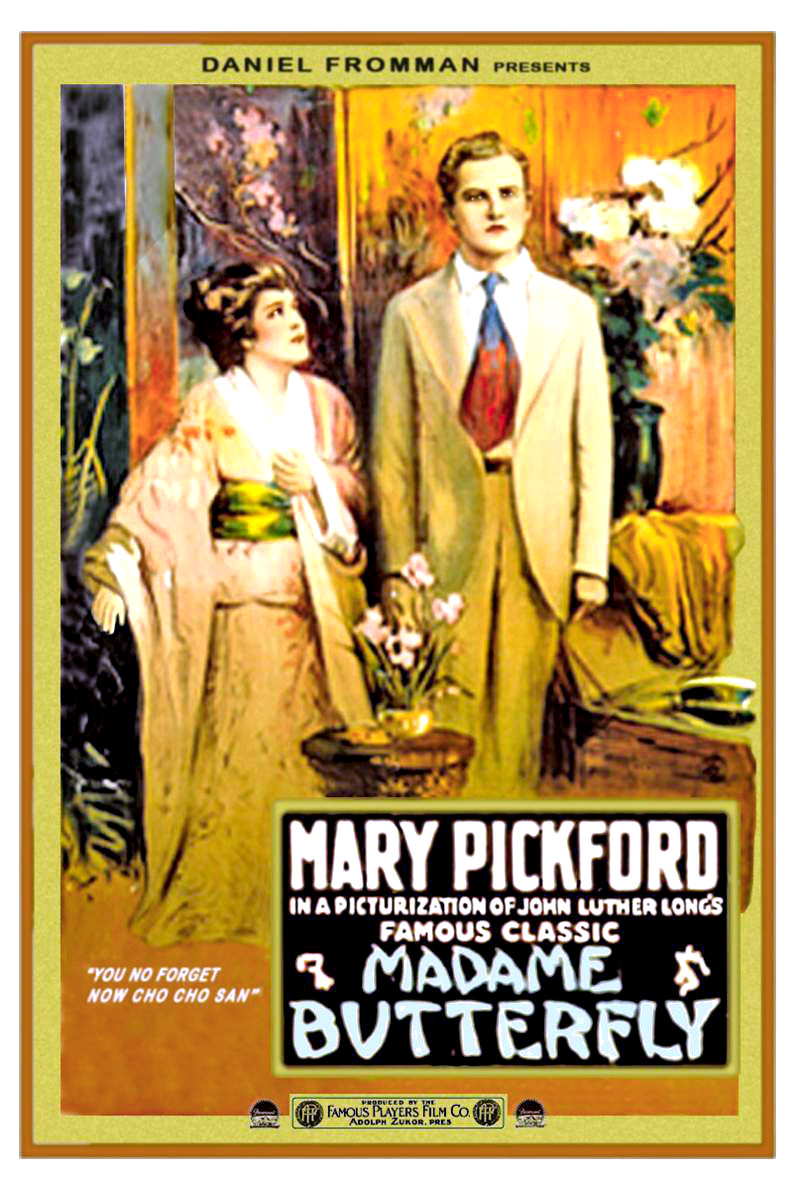 Movie poster for the 1915 film Madame Butterfly